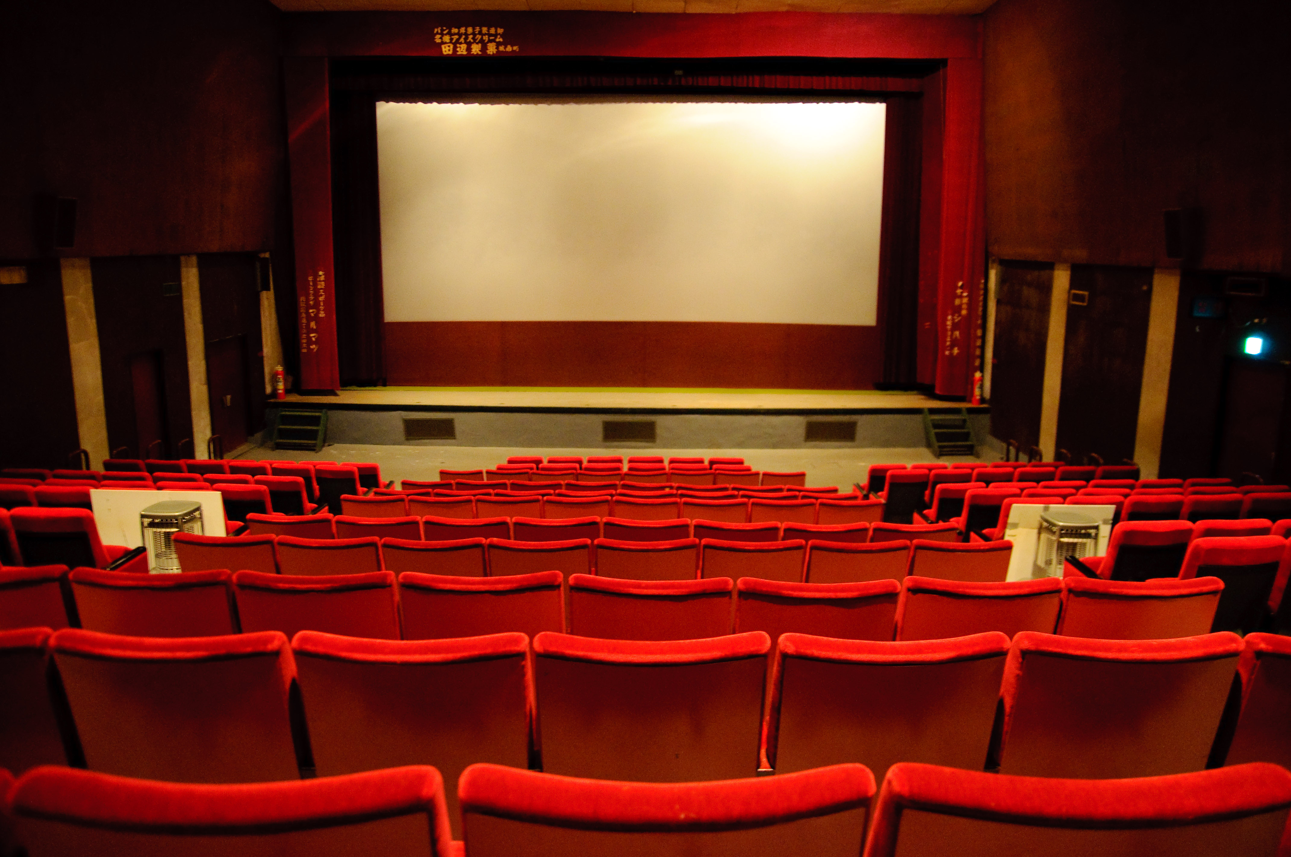 Toyogeki Movie in Toyooka, Hyogo prefecture, Japan.